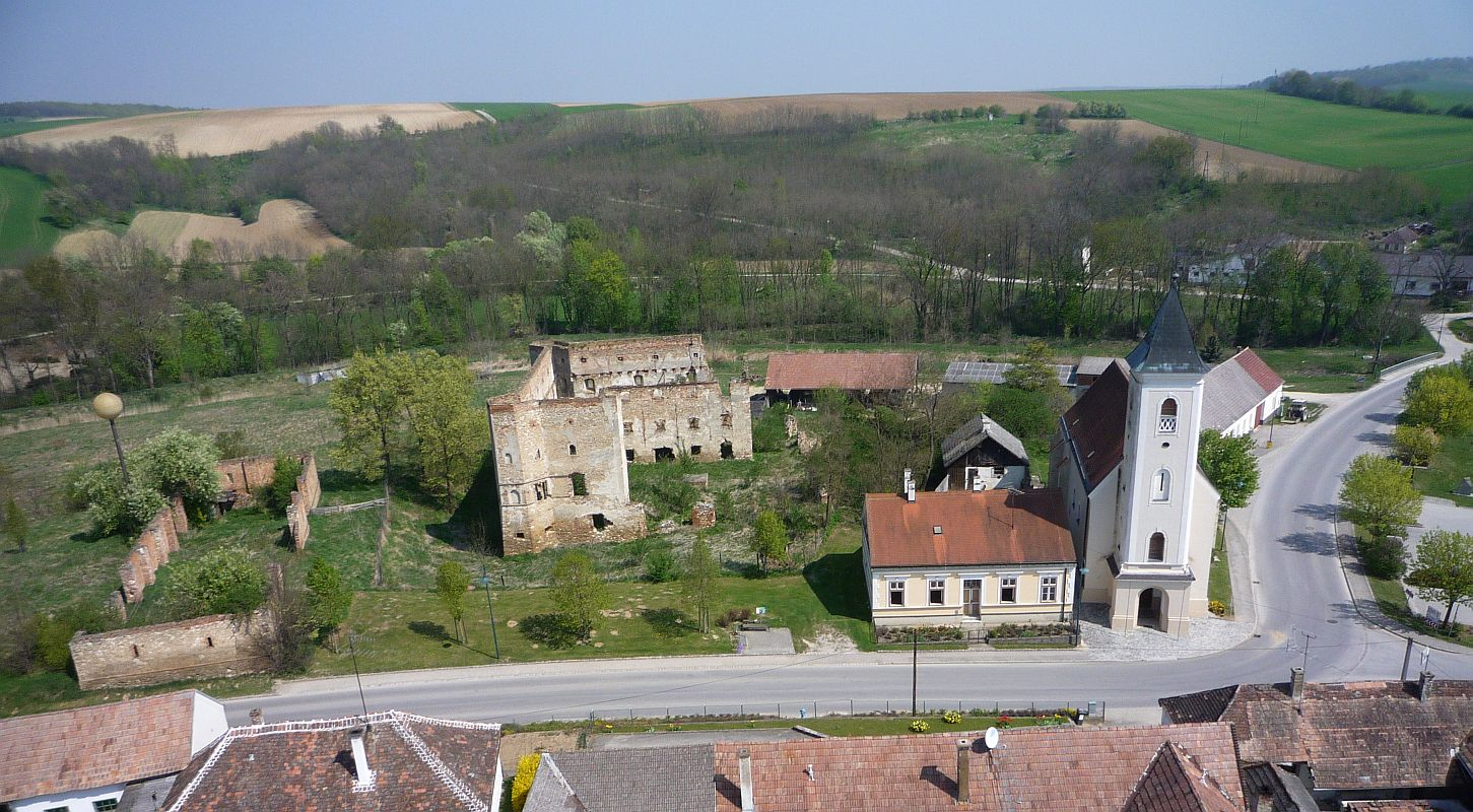 castle ruin Wenzersdorf